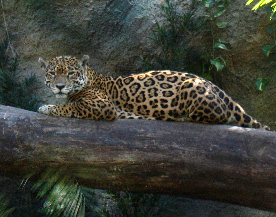 Jaguar in Biouniverzoo, Chetumal, Mexico